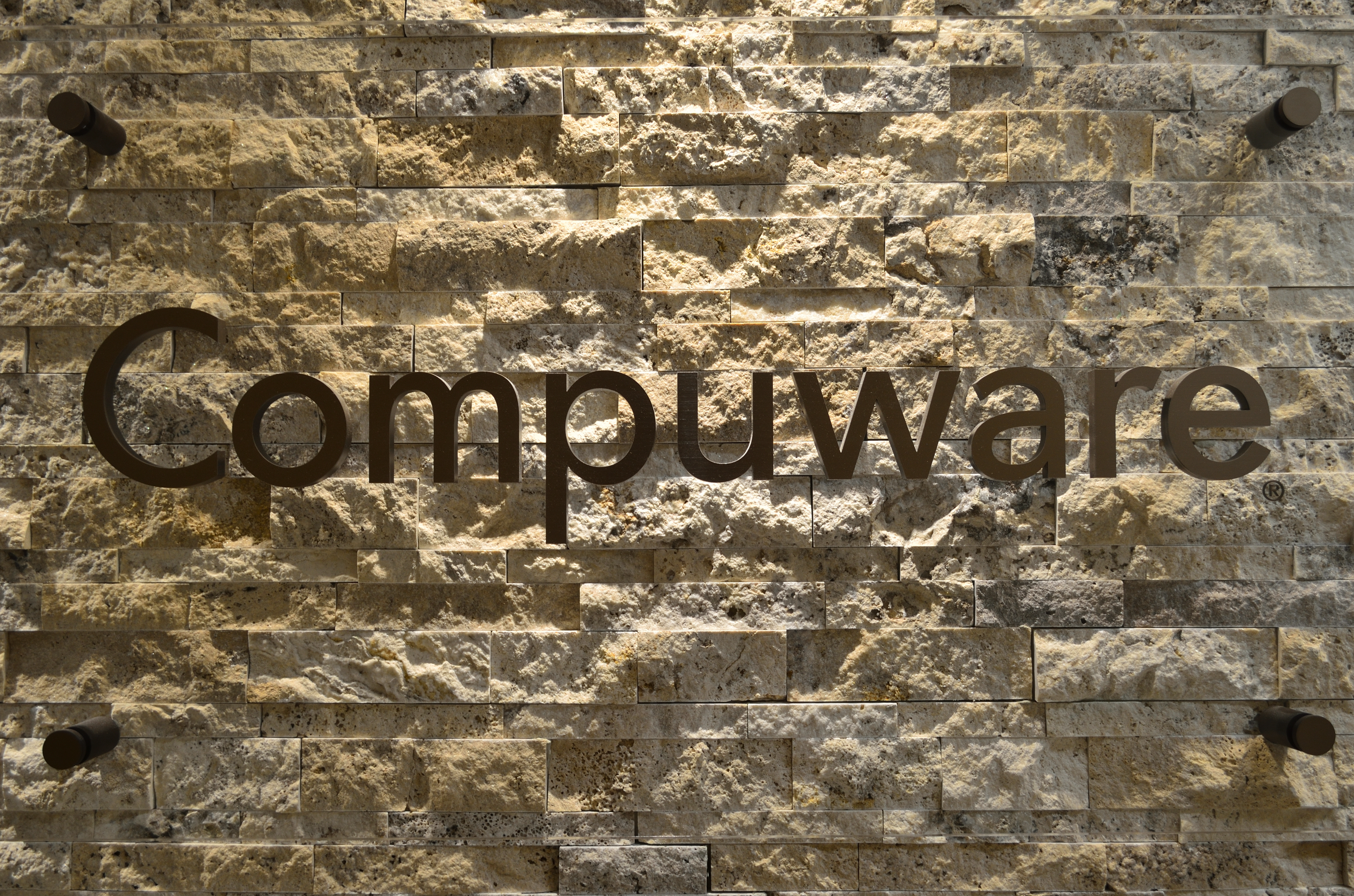 Compuware Canada - Address: 8300 Woodbine Avenue, Markham, Ontario